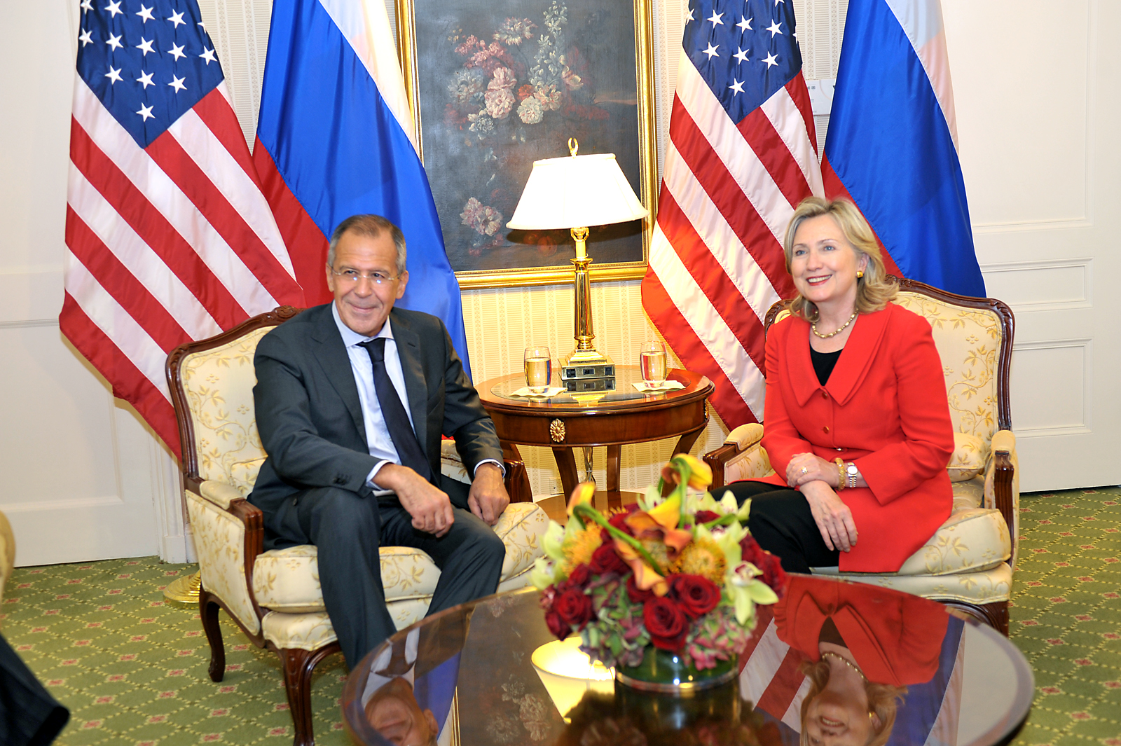 U.S. Secretary of State Hillary Rodham Clinton holds a bilateral meeting with Russian Foreign Minister Sergey Lavrov at the Waldorf-Astoria in New York, New York, on September 22, 2010. [State Department photo/ Public Domain]